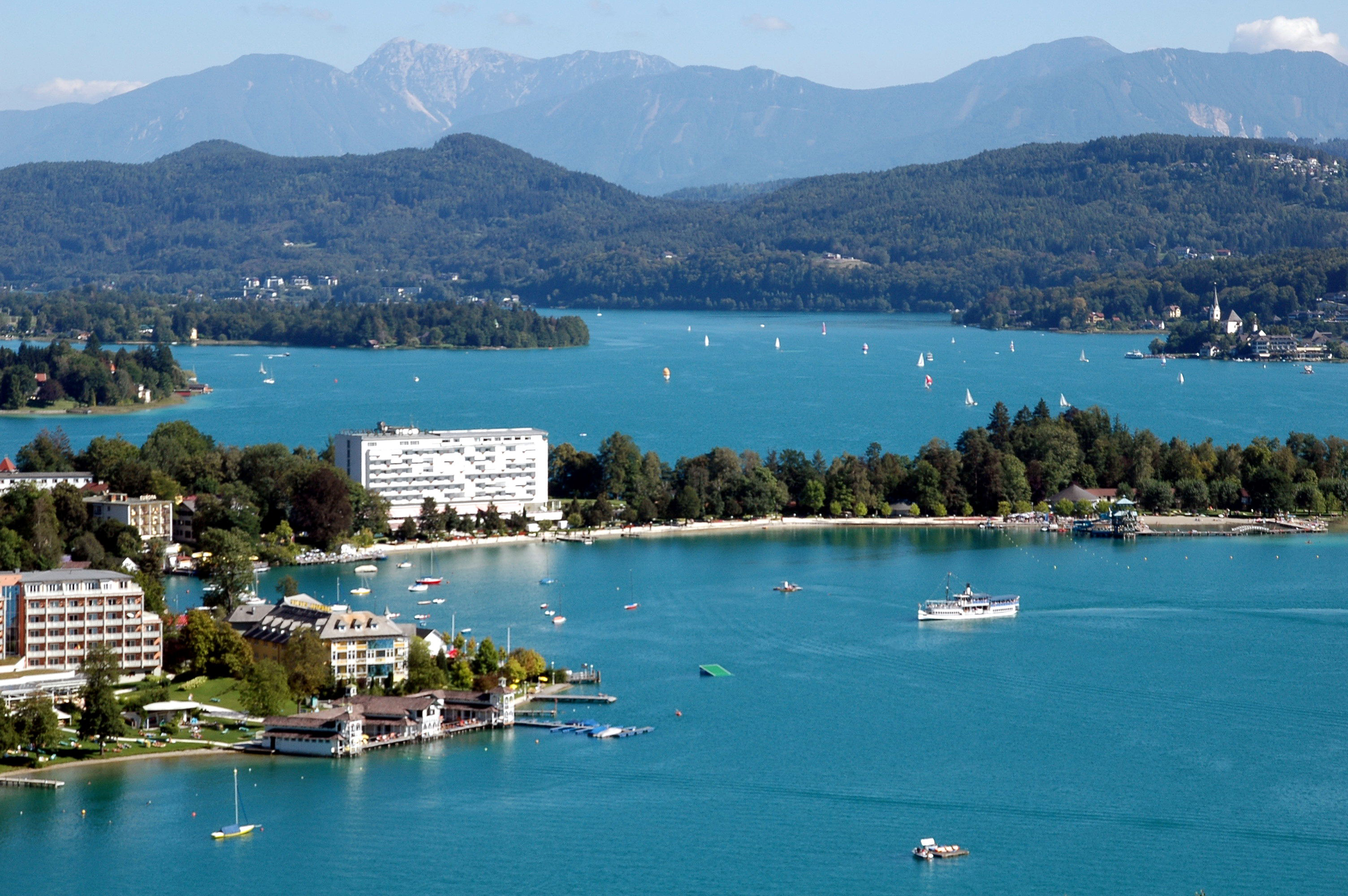 Passenger ship "Thalia", Parkhotel and west bay, municipality Poertschach on the Lake Woerth, district Klagenfurt Land, Carinthia / Austria / EU